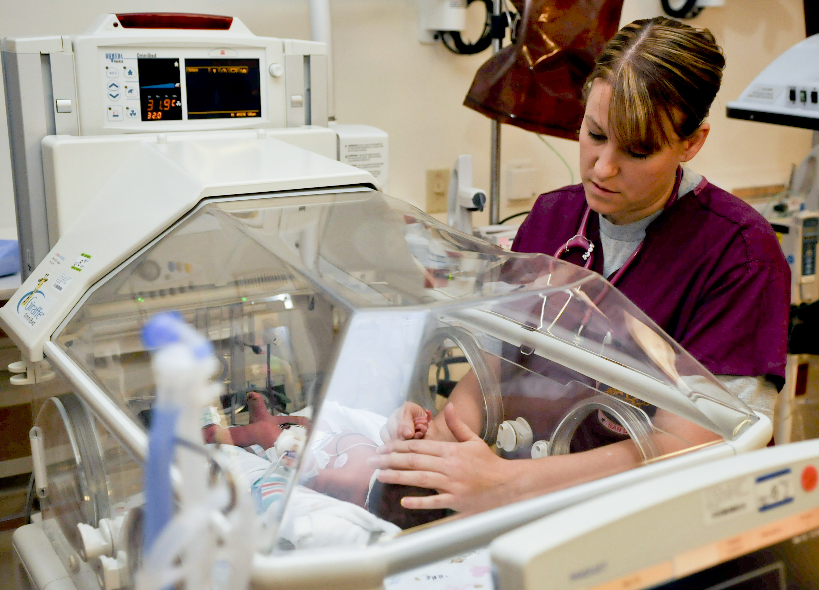 SAN DIEGO (April 13, 2012) Lt. j.g. Linda Duque, a Neonatal Intensive Care Unit nurse at Naval Medical Center San Diego, checks a newborn. More than 1,000 active duty and civilian nurses provide patient care throughout the medical center. (U.S. Navy photo by Mass Communication Specialist 2nd Class John O'Neill Herrera/Released) 120413-N-LD533-011 Join the conversation navylive.dodlive.mil